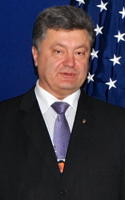 U.S. Secretary of State John Kerry poses with Vitali Klychko of the UDAR Party, Petro Poroshenko of the Euromaidan Movement, and Arseniy Yatsenyuk of the Fatherland Party before a meeting with the Ukrainian opposition leaders on the sidelines of the Munich Security Conference in Munich, Germany, on February 1, 2014. [State Department photo / Public Domain]